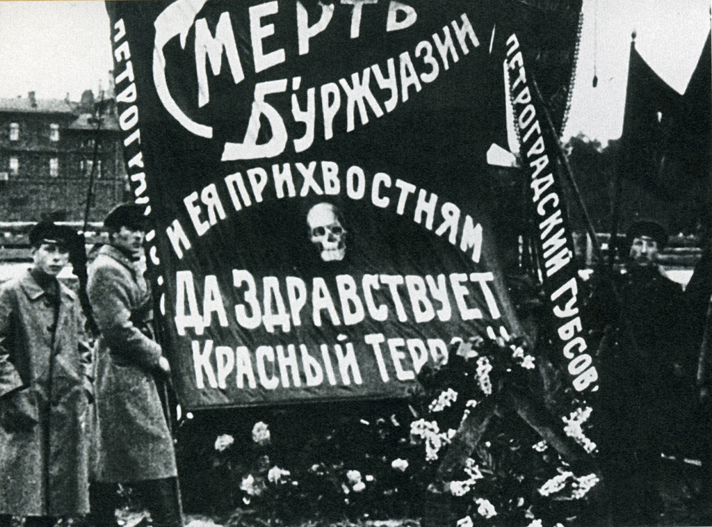 Guards at the grave of Moisei Uritsky. Petrograd. Translation of the banner: "Death to the bourgeois and their helpers. Long live the Red Terror."